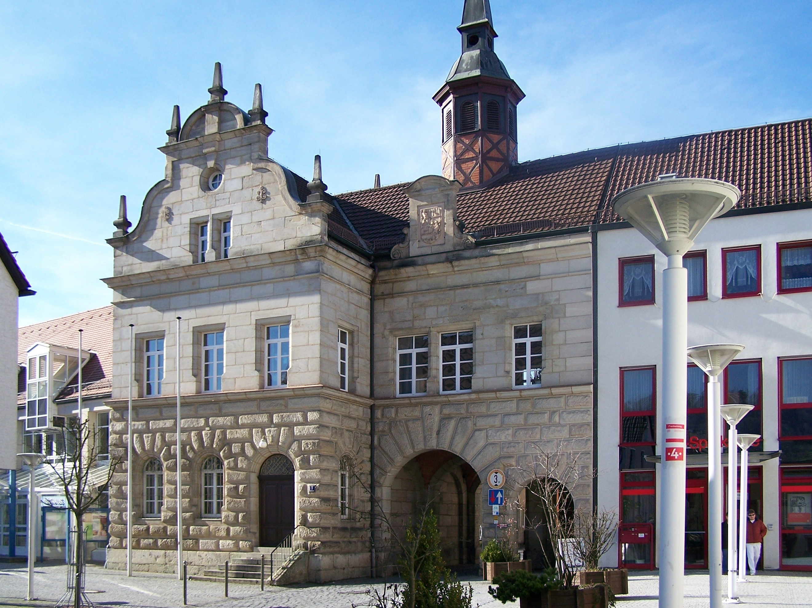 City gate in Schnaittach, Germany.